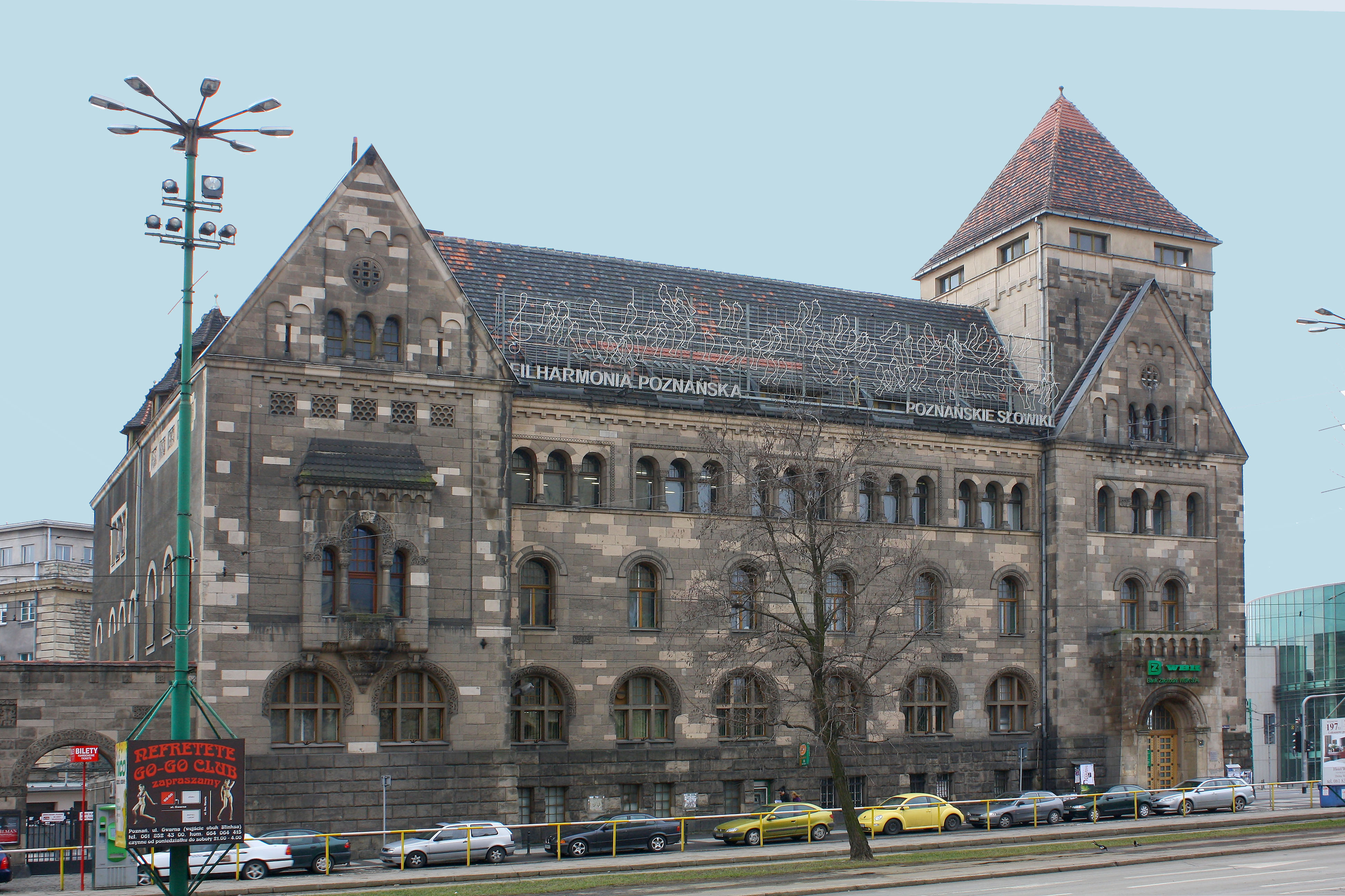 Poznan Philharmonic, Poznan, Poland, March 2010